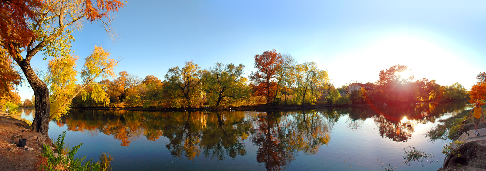 In Boerne, TX. Super wide angle (180 degrees) stitched panorama. Large view